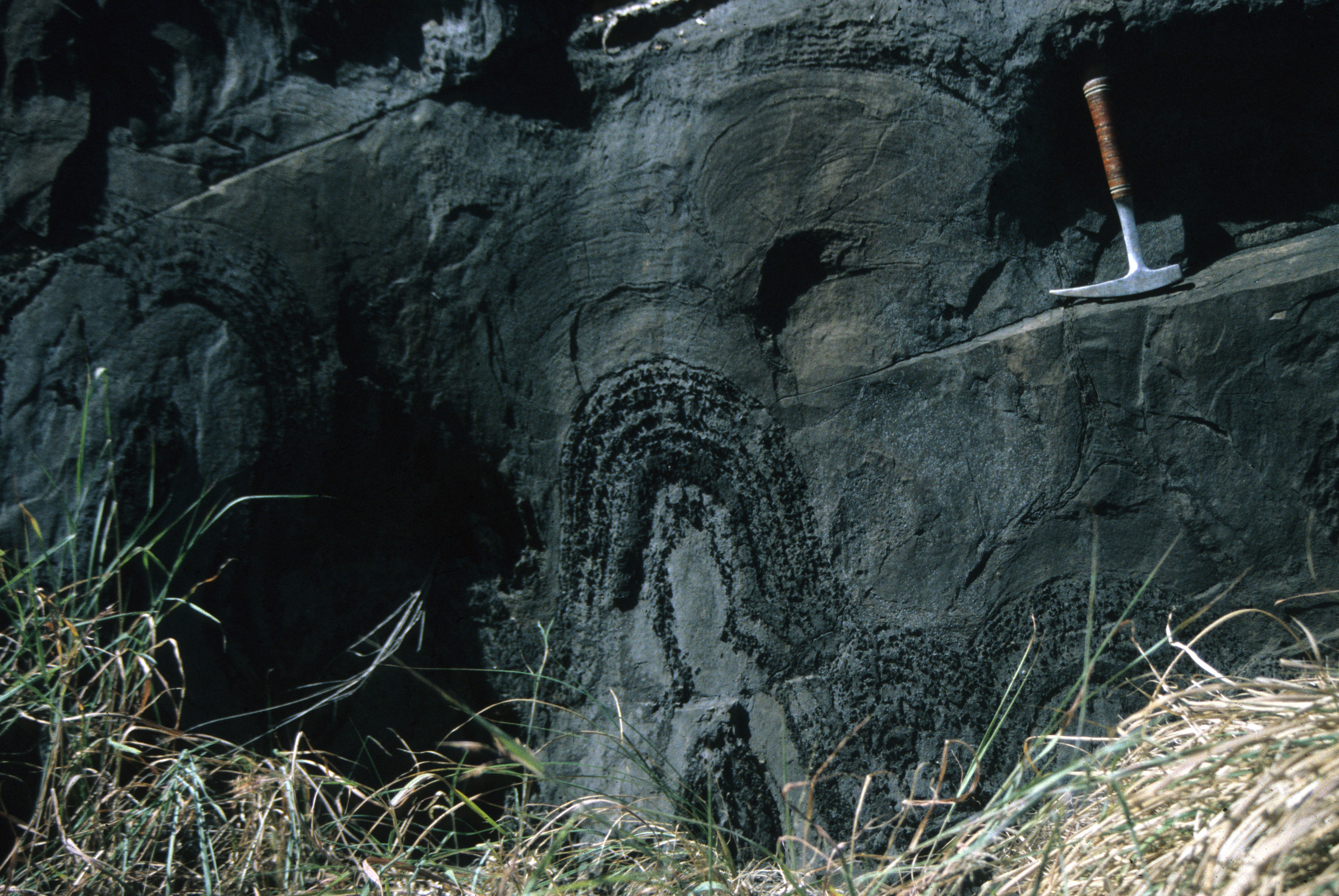 Stromatolites, evidence of life that existed 2650 million years ago. From the Cheshire Formation, Mberengwa, Zimbabwe. geotagged